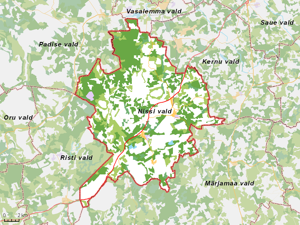 Map of municipality in Estonia